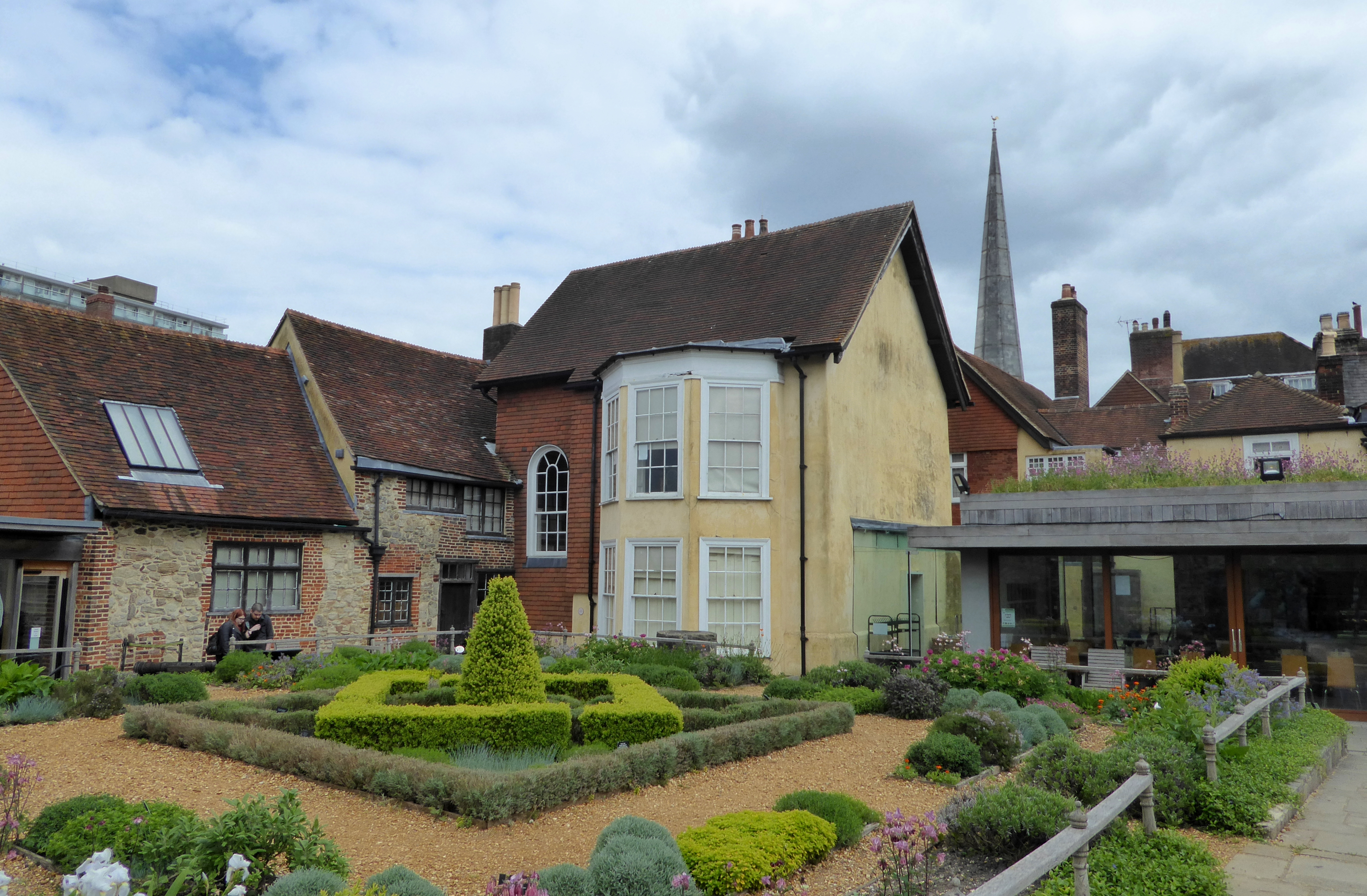 The garden of the Tudor House, Southampton, facing towards the house itself.